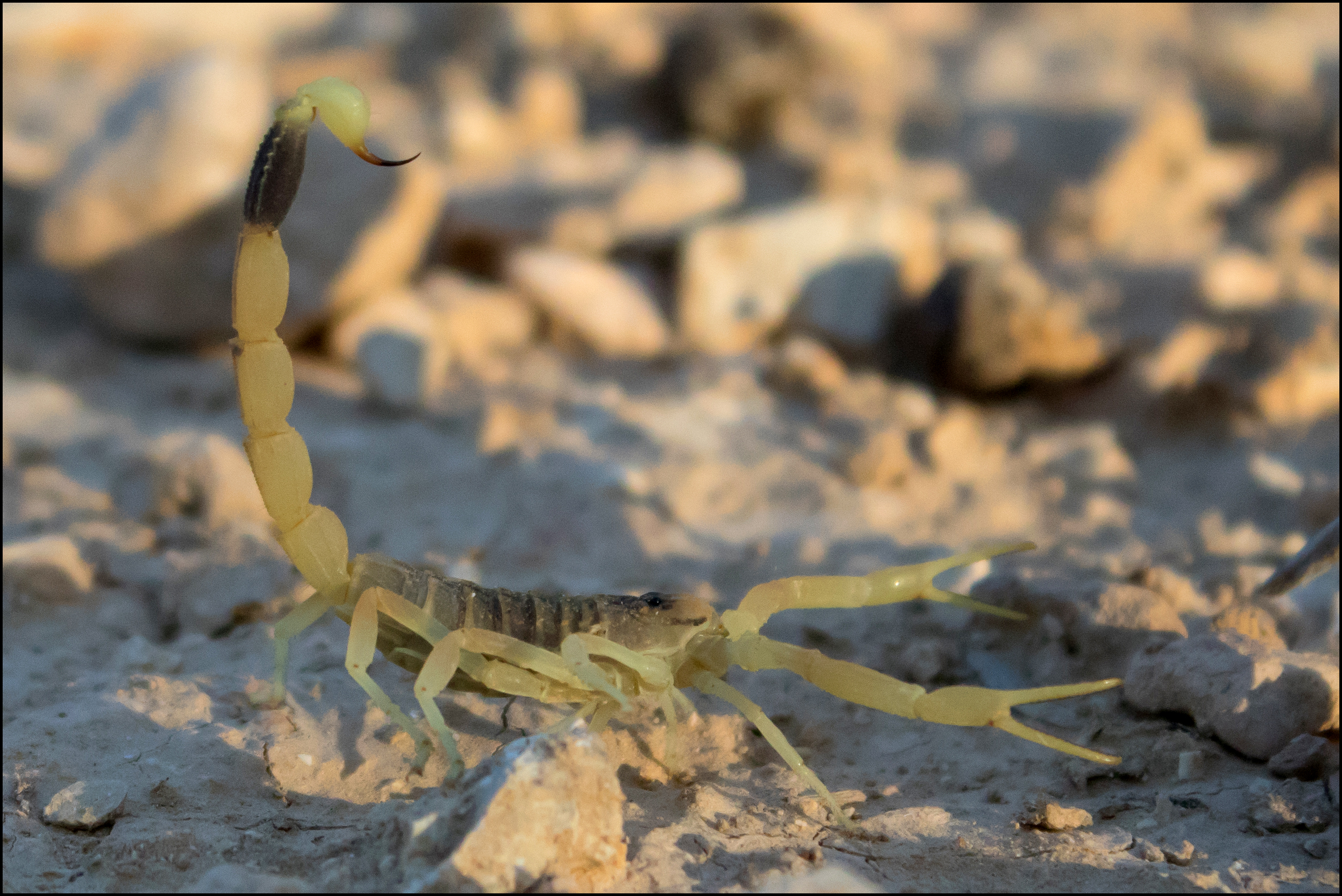 deathstalker (Leiurus quinquestriatus) Scorpion. photo taken at negev desert, Isreal.